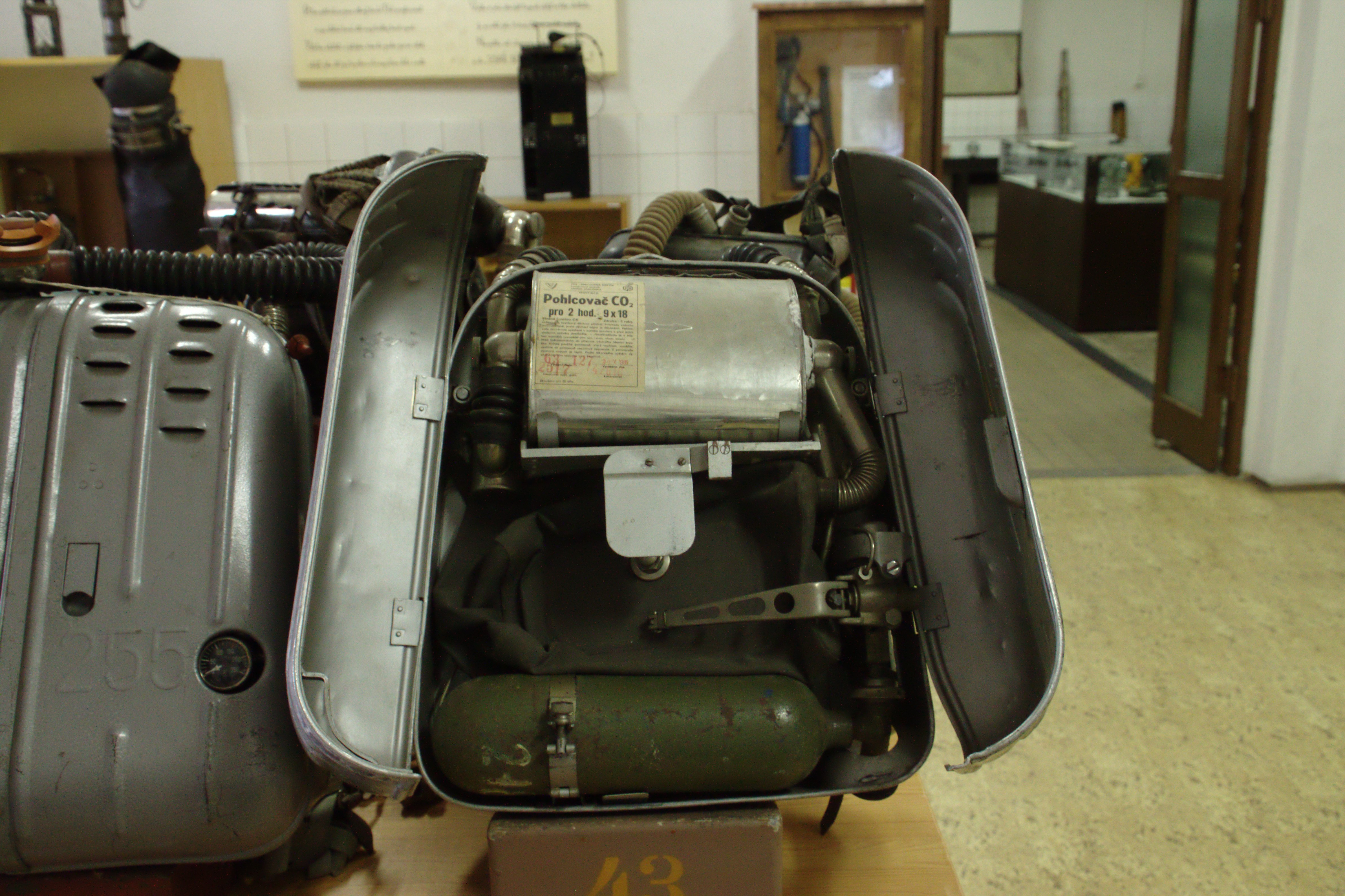 Unidentified SCBA. The sticker header reads in